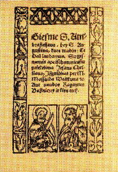 Martyno Mažvydo vertimas. Translation of Martynas Mažvydas. GIESME S. AMBRASZEIJAUS BEY S. AUGUSTINA.